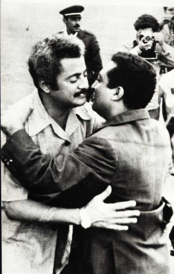 Al-Hamdi (right) and Salmeen (left) hugging after a while of official relations